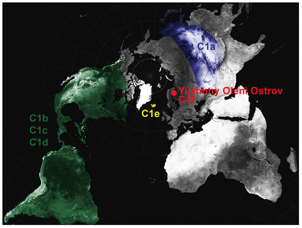 Approximate geographical distribution of the human mitochondrial haplogroup C1 sub-clades in modern and Mesolithic Yuzhnyy Oleni Ostrov populations.